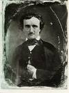 daguerreotype of Edgar Allan Poe.